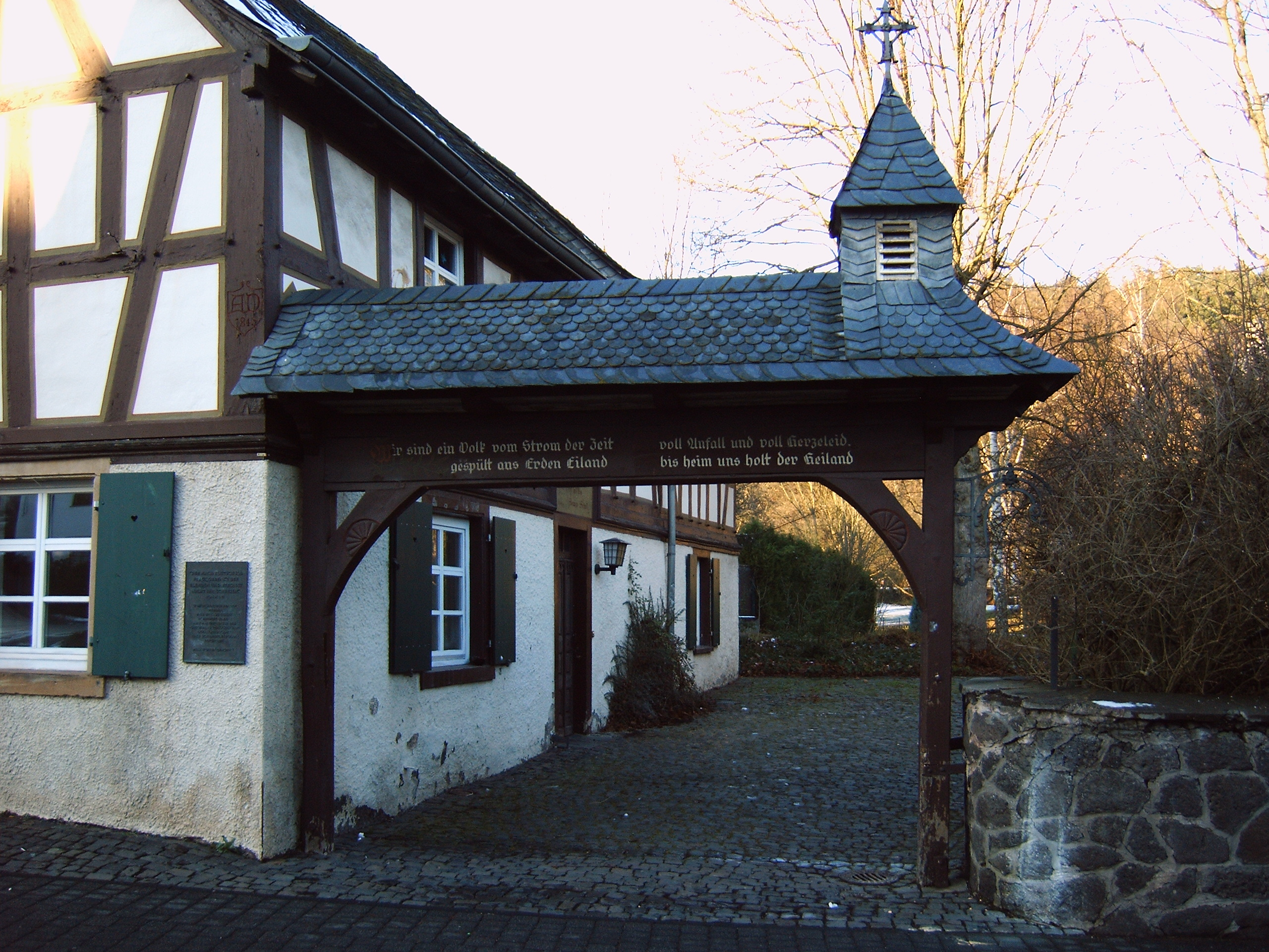 Description: children's home, entrance Source: Alexander Dreyer Site views of Niederwörresbach, Germany, Photographed by myself, dec. 2005